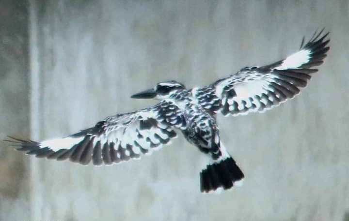 Pied kingfisher